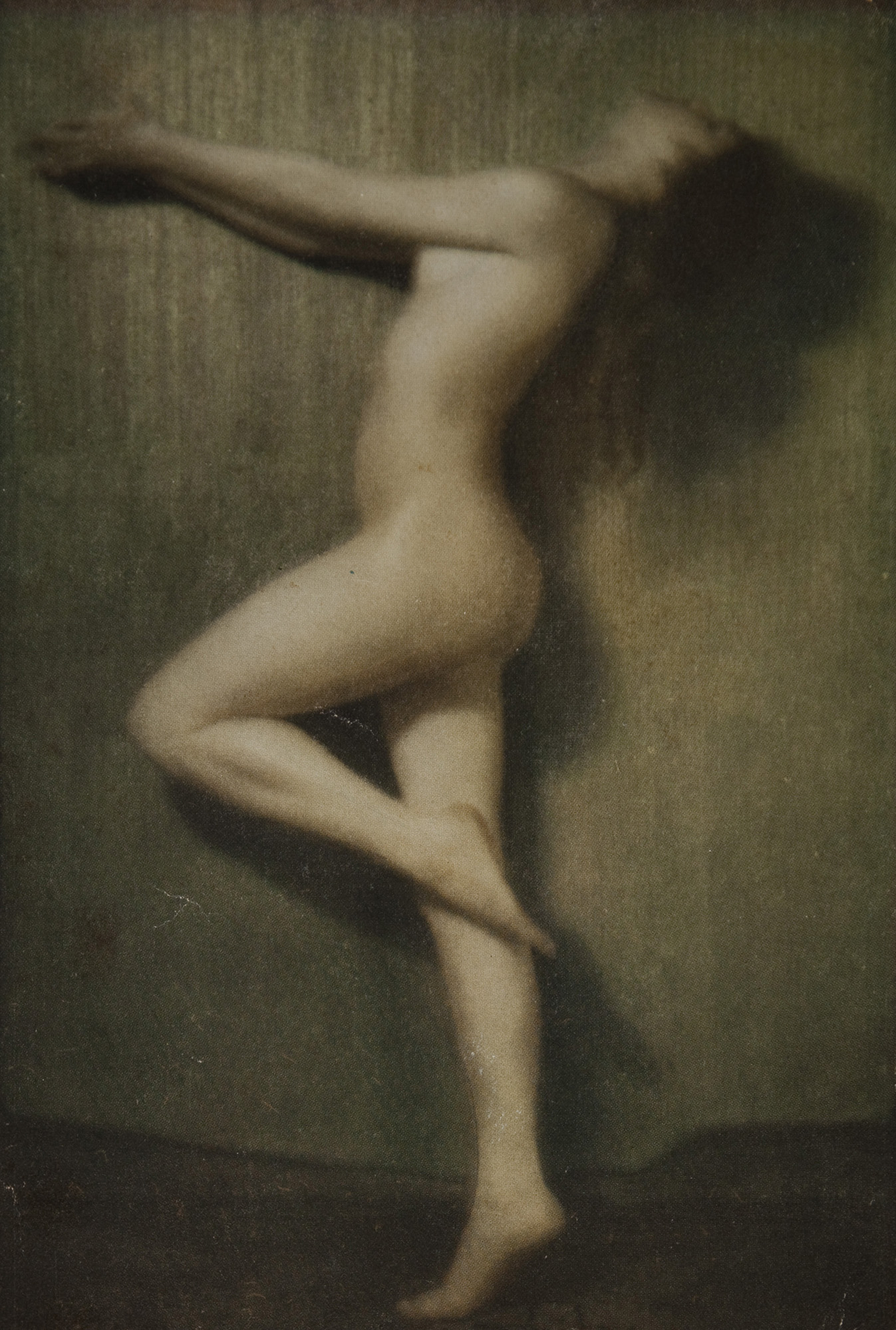 Untitled (nude) by Artist: Karl Struss Artist Bio: American, 1886 - 1981 Creation Date: 1919 Process: duotone Credit Line: Gift of Eleanor Savage Accession Number: 2003.024.002